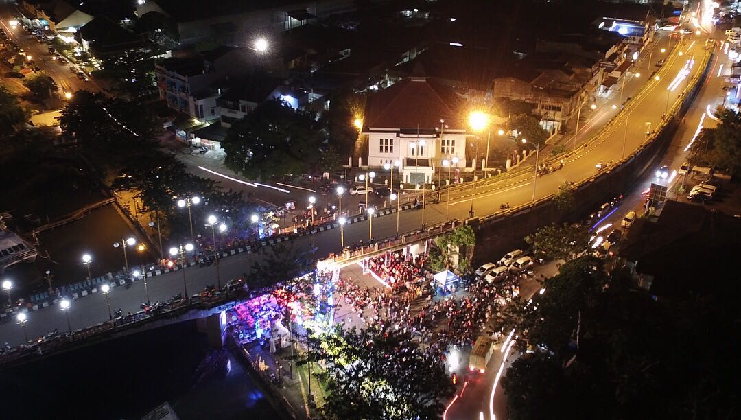 Festival Musik Padang